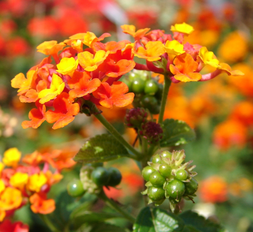 A view of Lantana camara flowers and fruits (family: Verbenaceae), took in Collection of Annual Plants, Department of Ornamental Plants, Warsaw Agricultural University